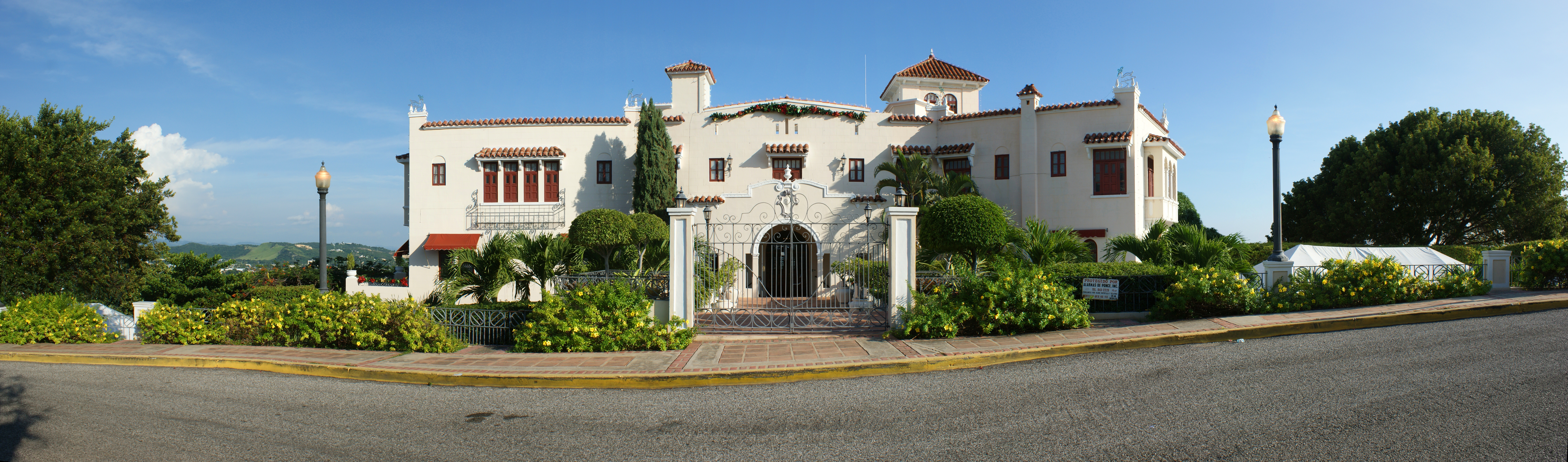 Castillo Serrallés — historic mansion, gardens, and present day historic house museum, overlooking Ponce, in southern Puerto Rico. The Spanish Colonial Revival style residence was completed in 1930, and is on the National Register of Historic Places in Ponce, Puerto Rico.